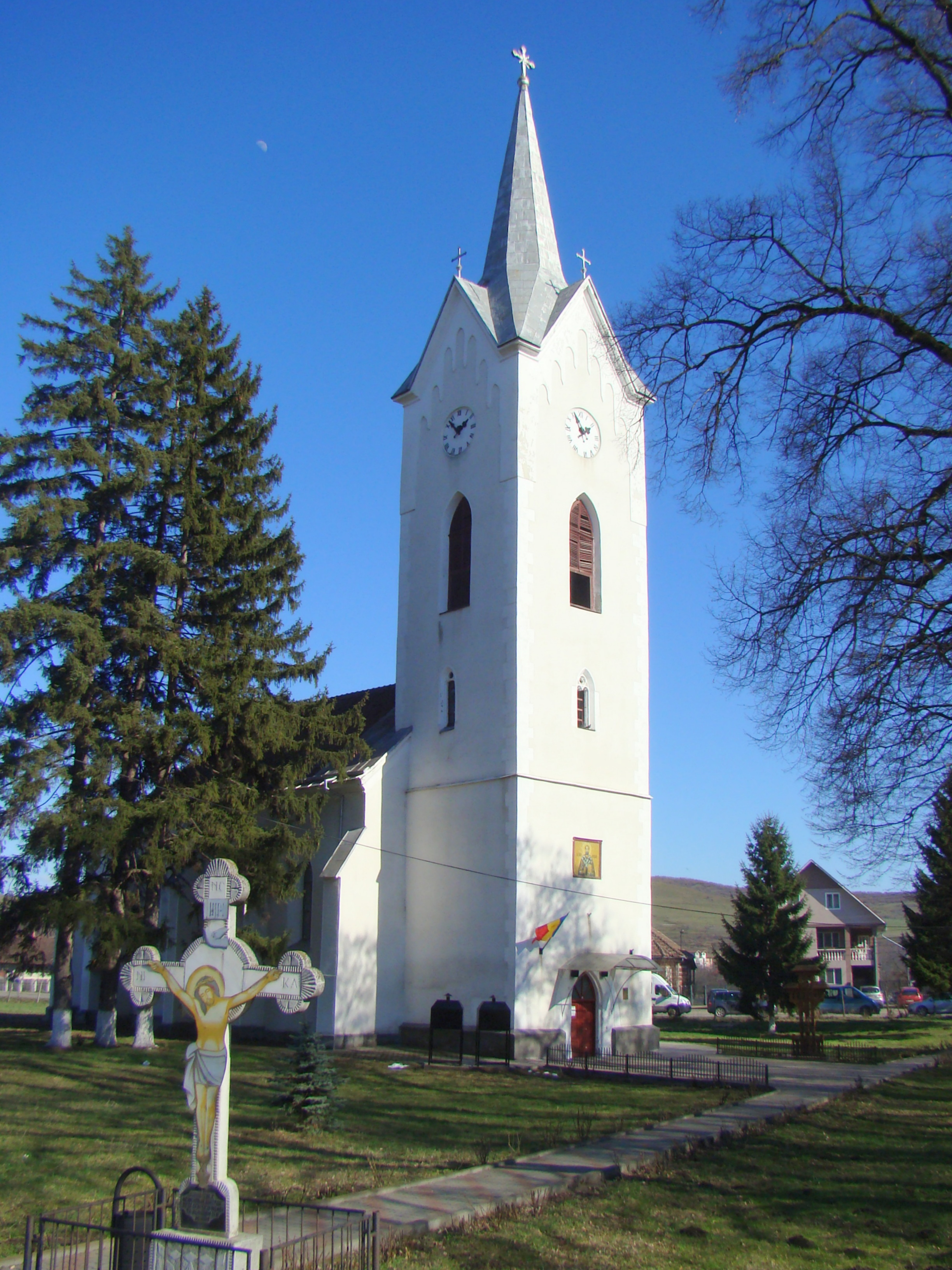 Saint Nicholas church in Viișoara, Bistrița-Năsăud county, Romania